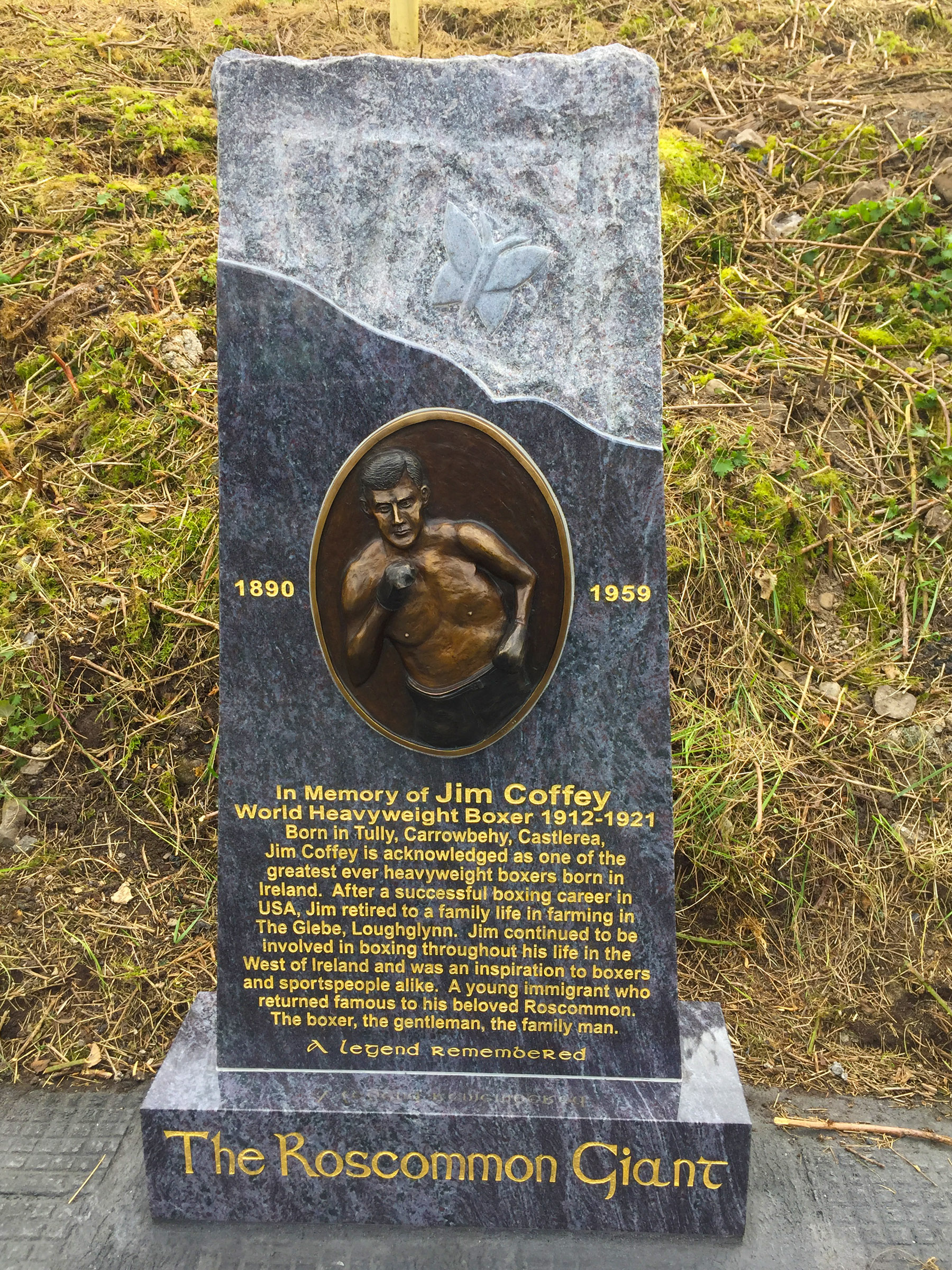 Monument erected to the memory of heavyweight boxer Jim Coffey.